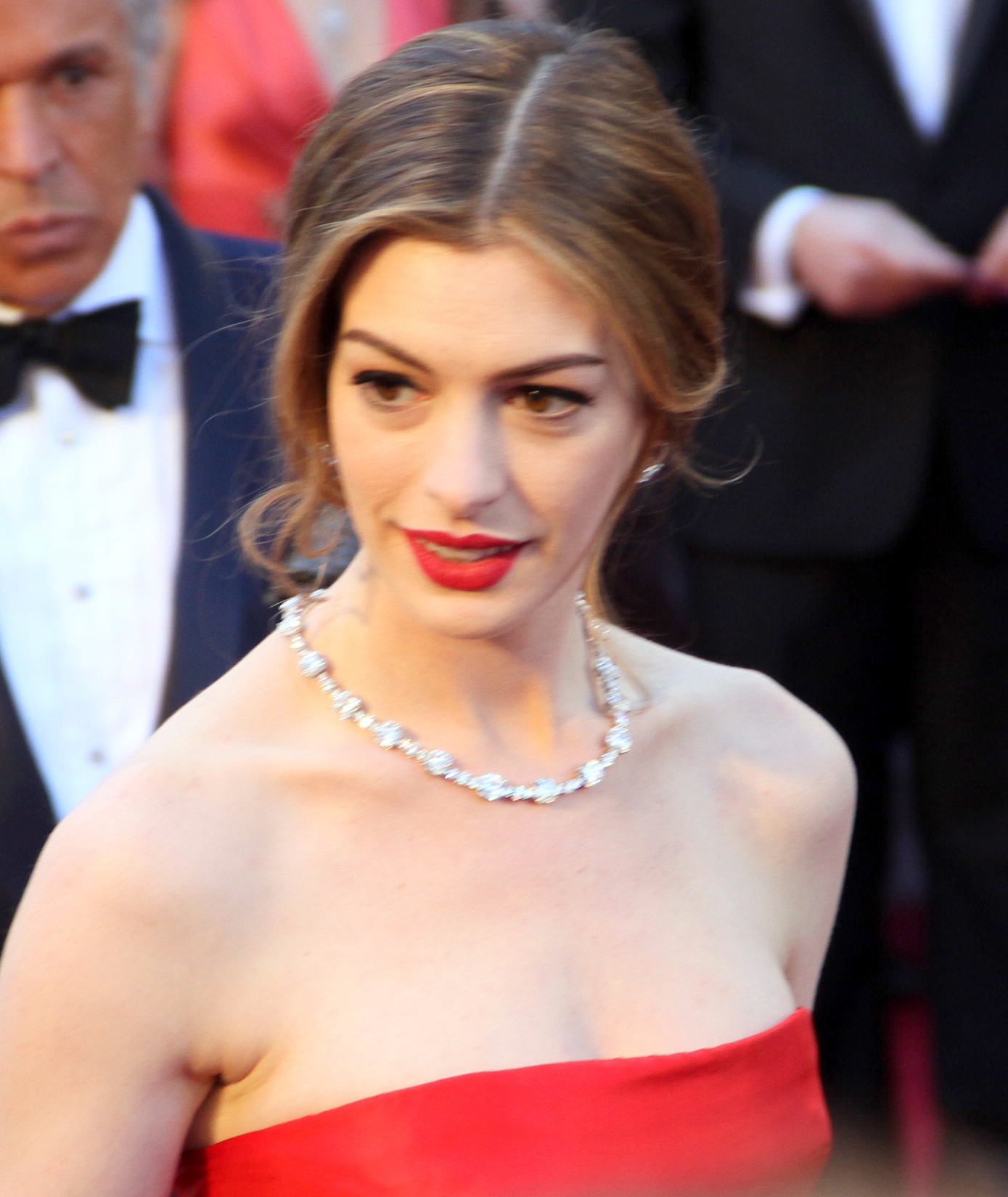 Anne Hathaway at the 83rd Academy Awards